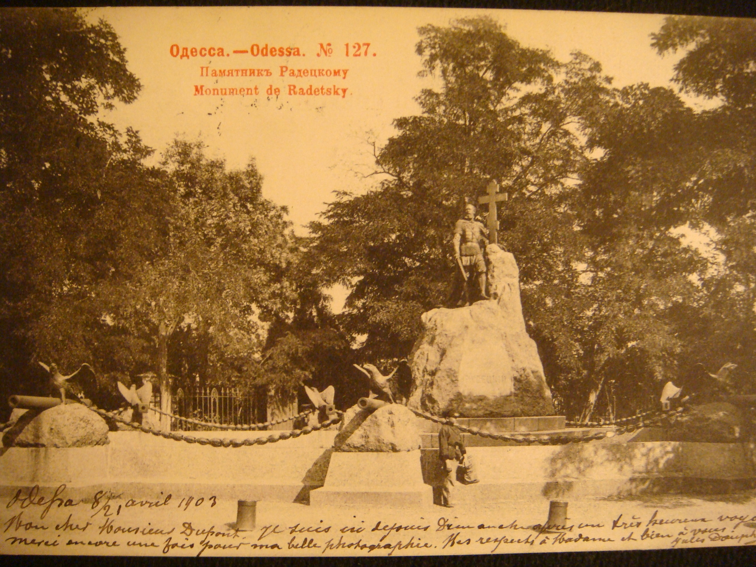 Real photo Post Card with view of Odessa published by «Phototypie Scherer, Nabholz & Co, Moscow» at the beginning of XX century.